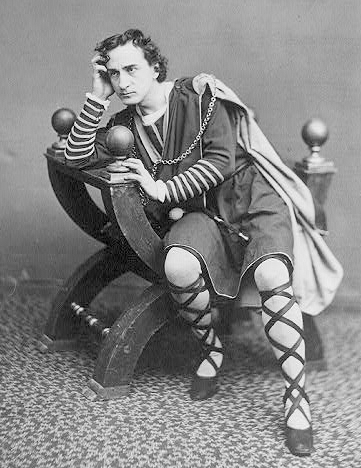 Edited version of photograph of American actor Edwin Booth as William Shakespeare's Hamlet, circa 1870